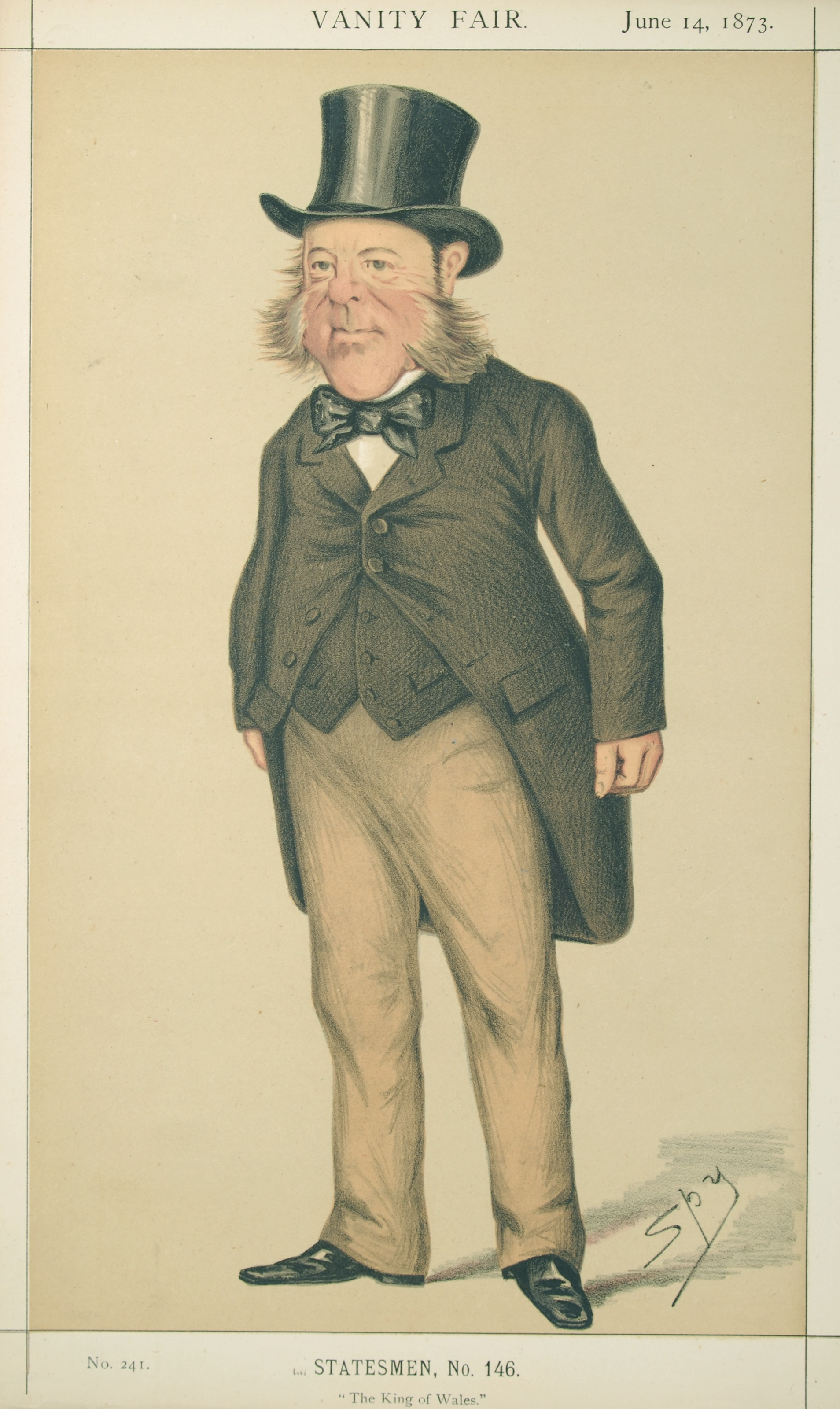 Statesmen No.146: Caricature of Sir Watkin Williams-Wynn Bt MP. Caption read "The King of Wales".